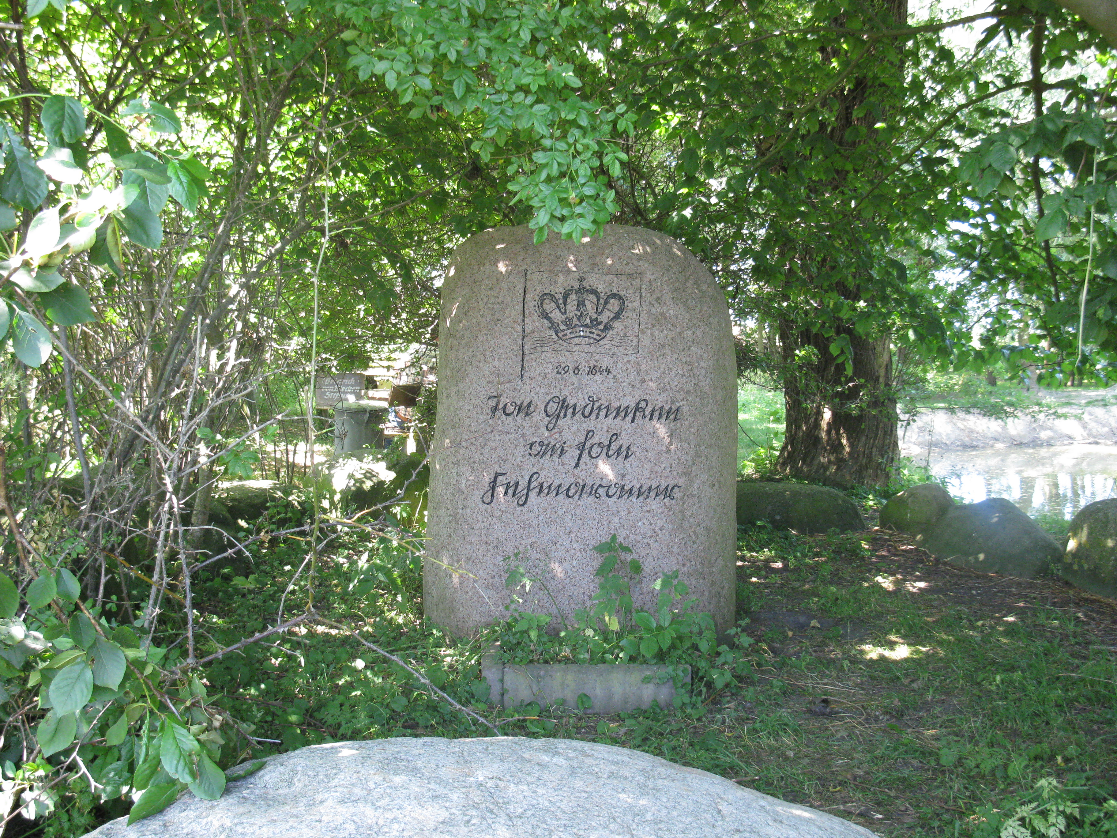 Memorial Kriegssoll, Landkirchen, Fehmarn